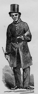 Portrait of George "Geordie" Ridley (1835-1864)